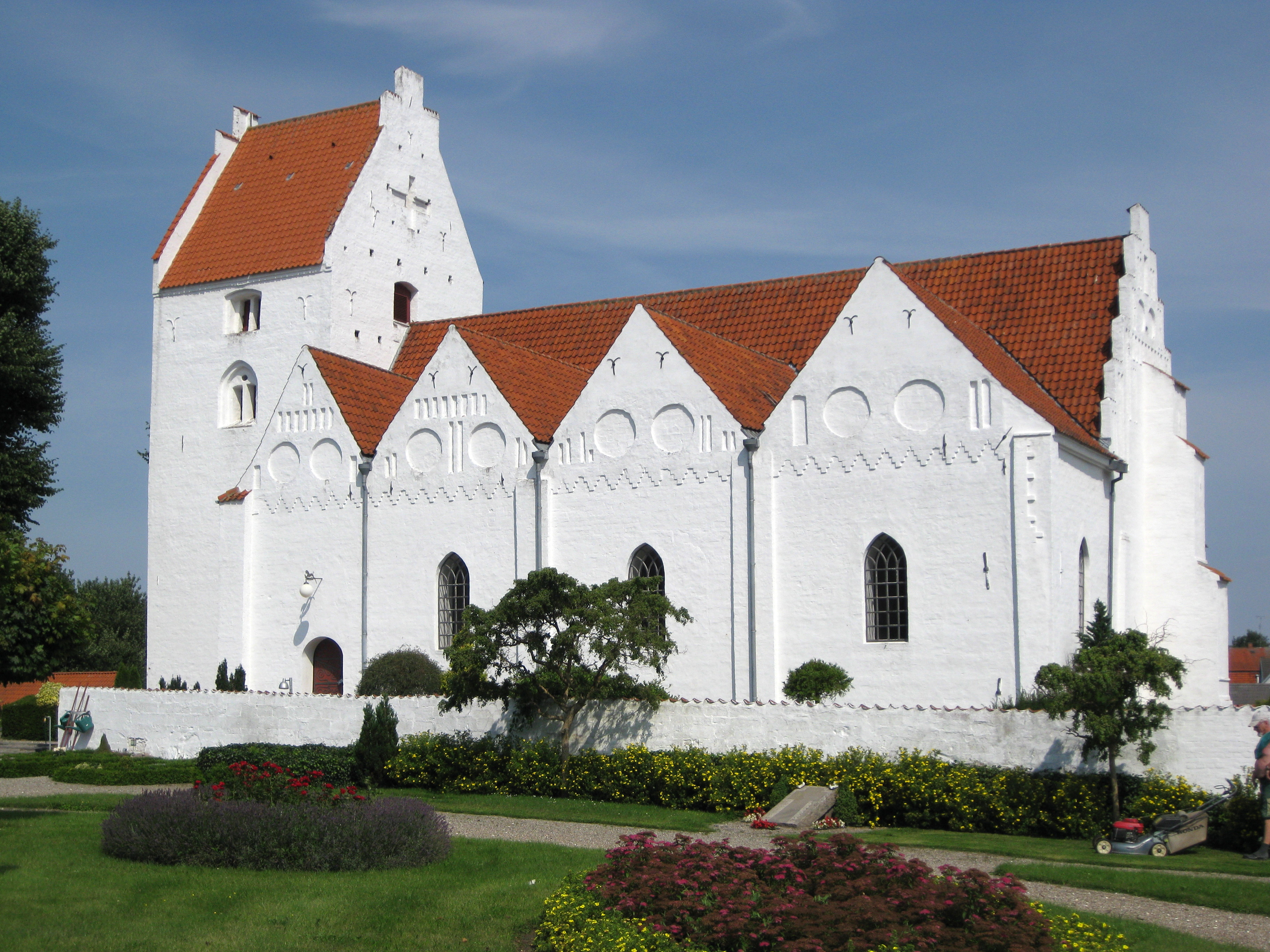 The church "Mern Kirke" in the small town "Mern". The town is located on South Zealand in east Denmark.